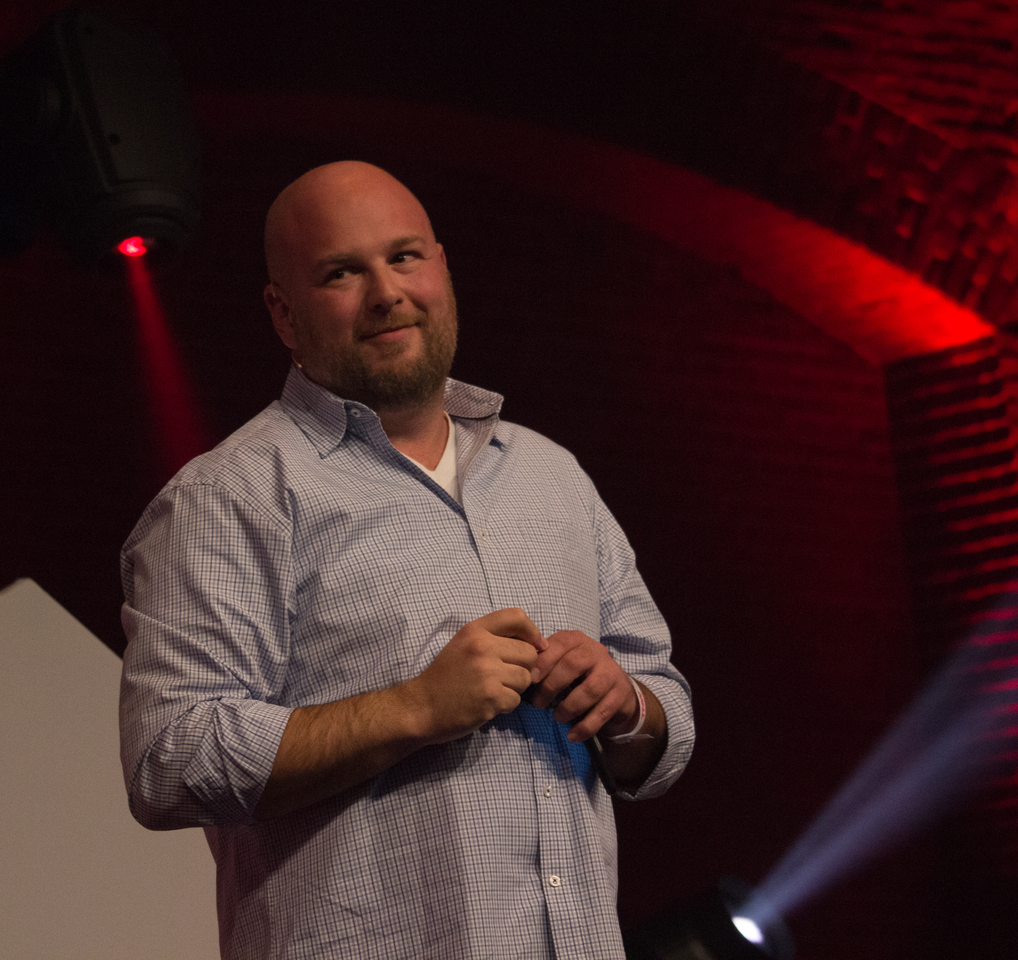 Gabe Zicherman giving a talk at TNW Conference